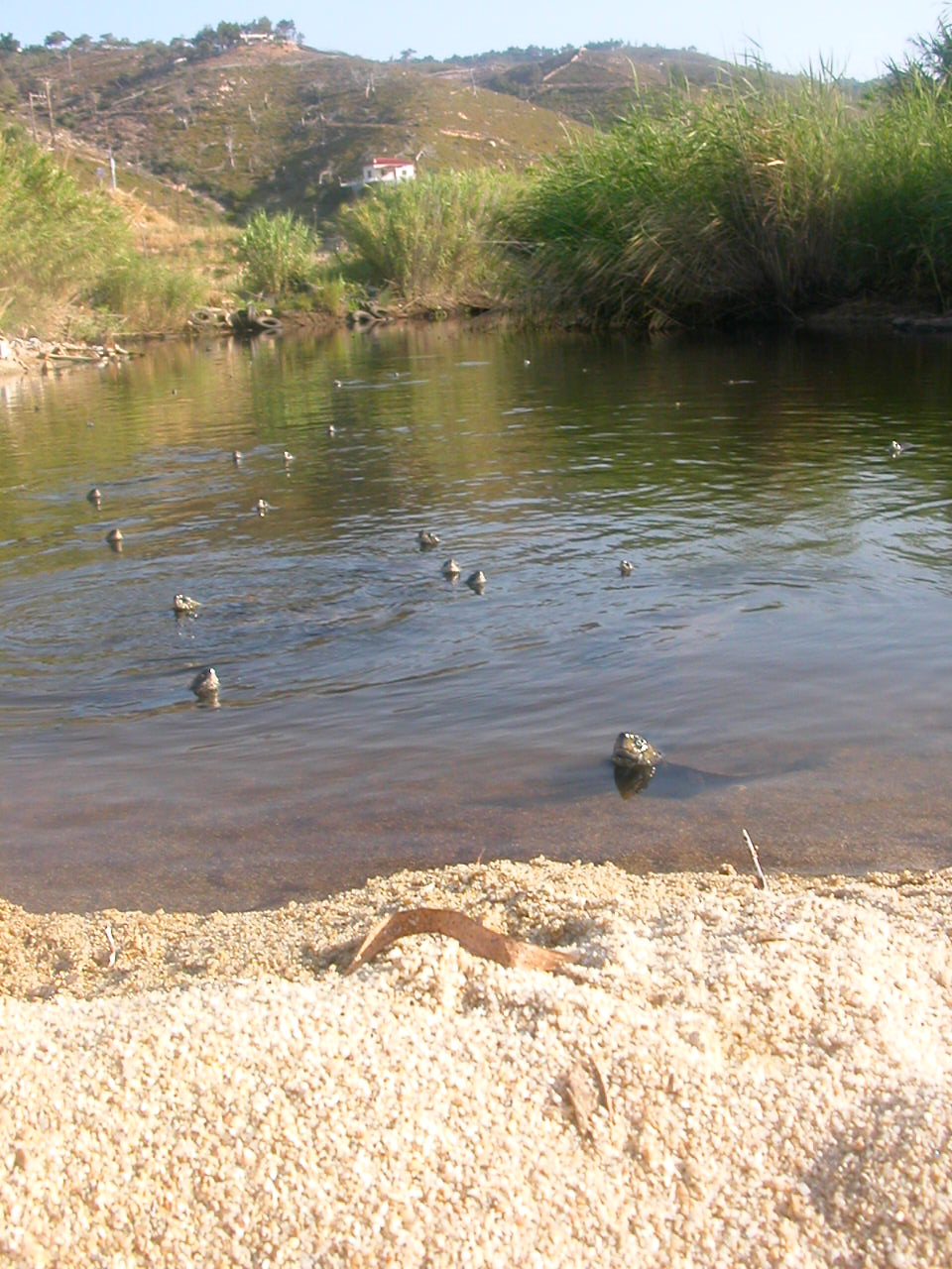 turtles near Livadi beach, Ikaria, Greece